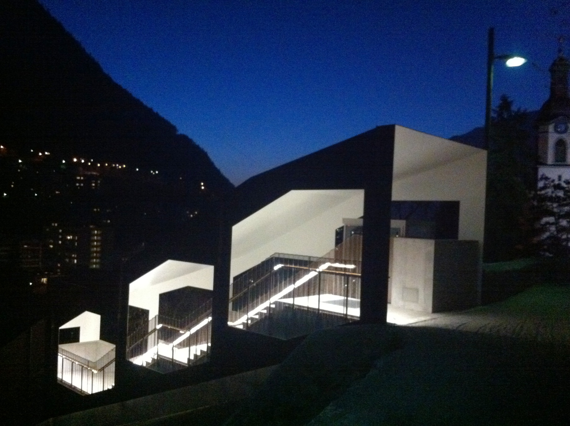 Stairway "Weinbergtreppe" in Chur (Switzerland)